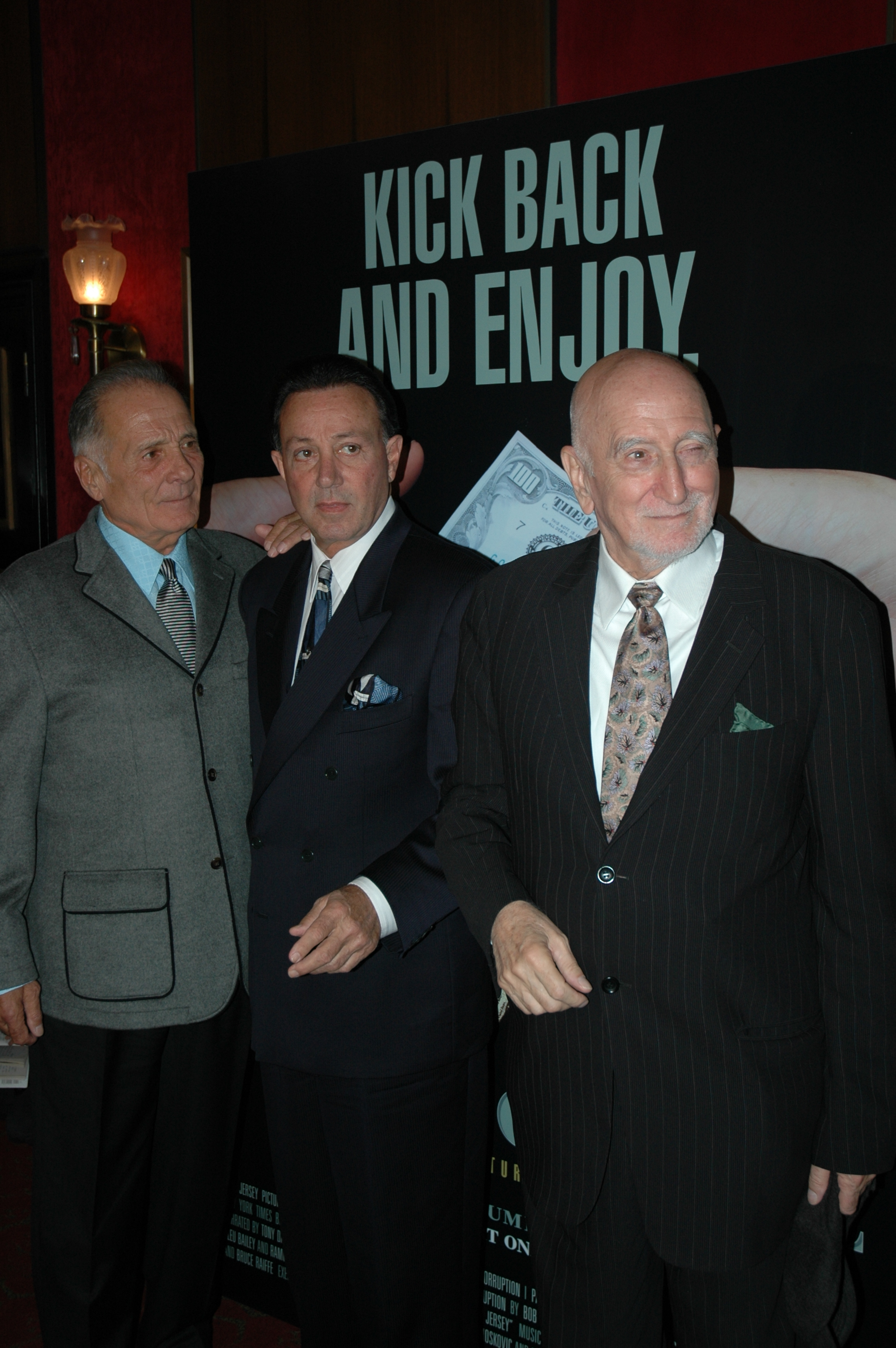 Dominic Chianese at the world premiere of the new documentary, "The Soprano State", about political corruption in New Jersey.